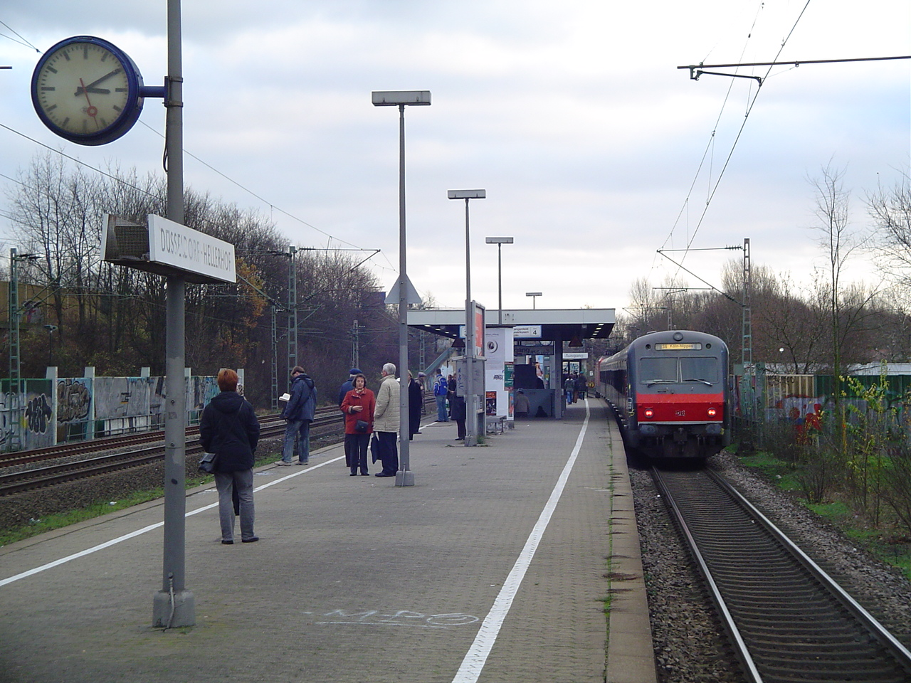 Düsseldorf-Hellerhof S-Bahn stop, Germany